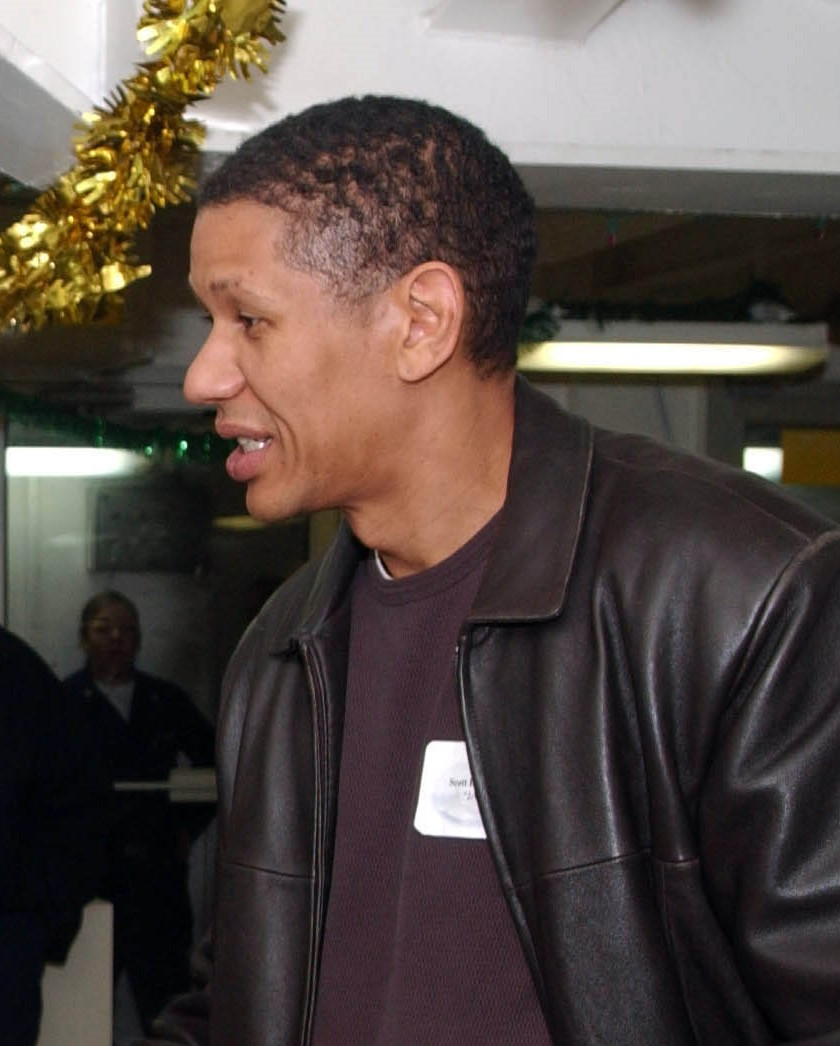 Pacific Ocean (Dec. 11, 2004) - Television actor Scott Lawrence purchases souvenirs from the ship's store during a visit to the aircraft carrier USS Nimitz (CVN 68). Nimitz is currently conducting Composite Training Unit Exercise (COMPTUEX) off the coast of southern California. U.S. Navy photo by Photographer's Mate 2nd Class Elizabeth Thompson (RELEASED)